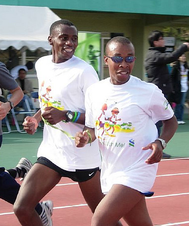 Henry Wanyoike and his guide, Joseph Kibunja. Henry Wanyoike was guest of honour and he participated in the run. He hold numerous world records for blind runner. All in this link: Camera: Nikon E5200